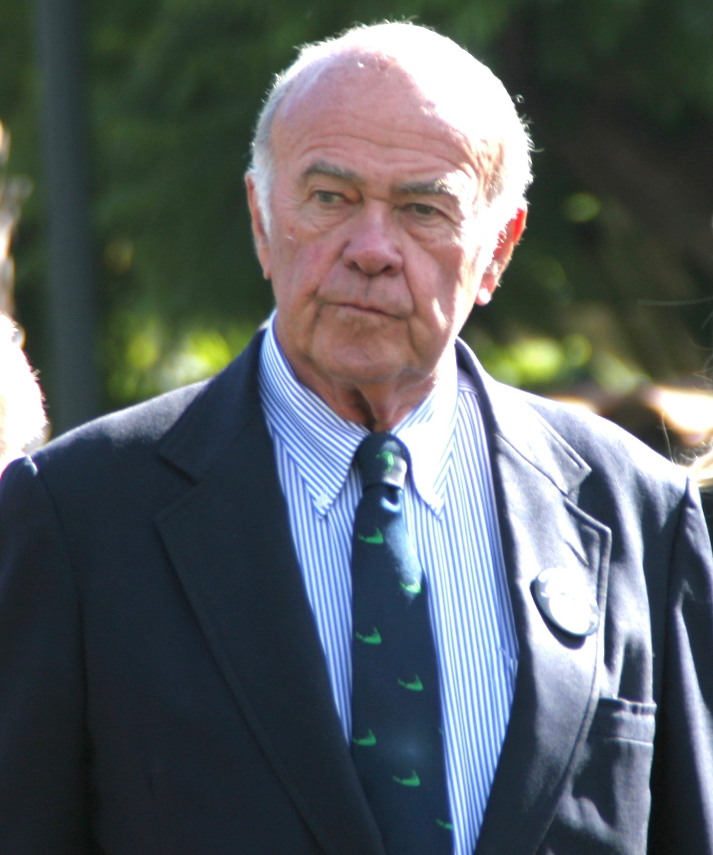 Sander Vanocur, journalist and Santa Barbara resident, at a rally to support current and former employees of the Santa Barbara News-Press, on De La Guerra Plaza downtown.